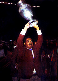 Peru manager Marcos Calderón raises the Copa América, which the Peru national football team won in 1975.